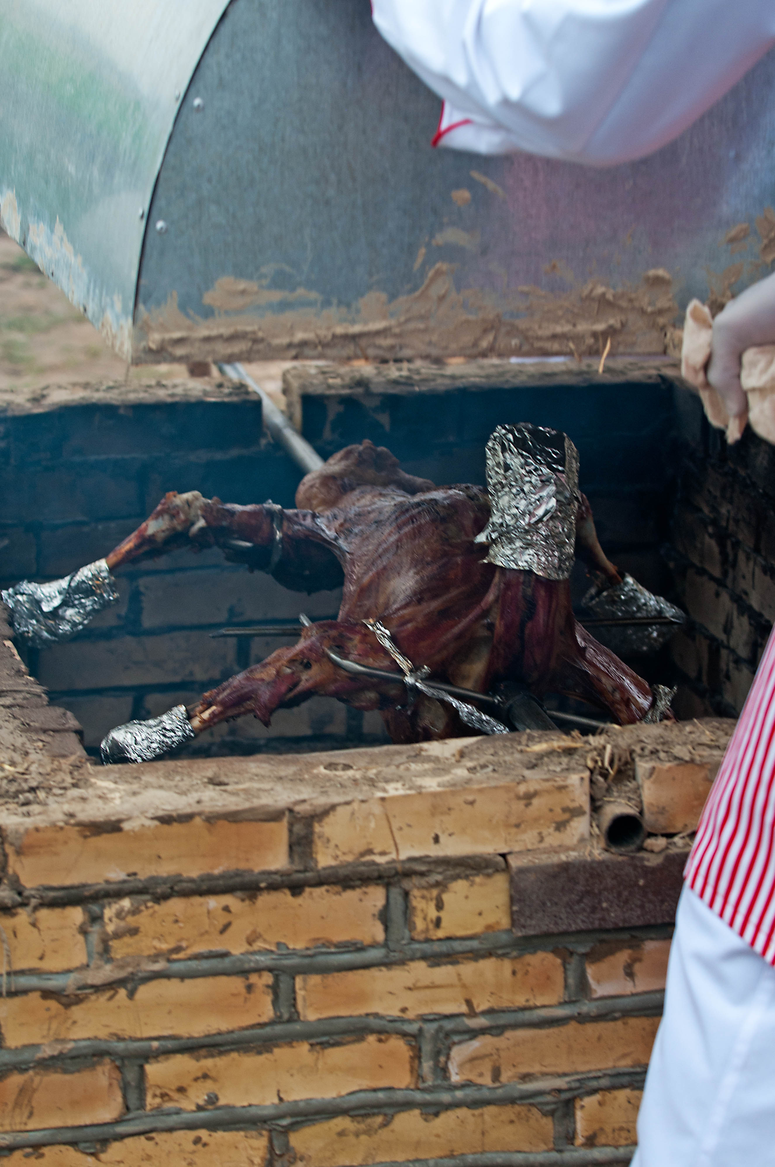 Opening of the Ahal Velayat Equestrian Complex